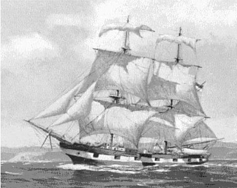 "Historia de la Marina de Chile" by Carlos Lopez Urrutia, Editorial Andres Bello, 1968 page 26